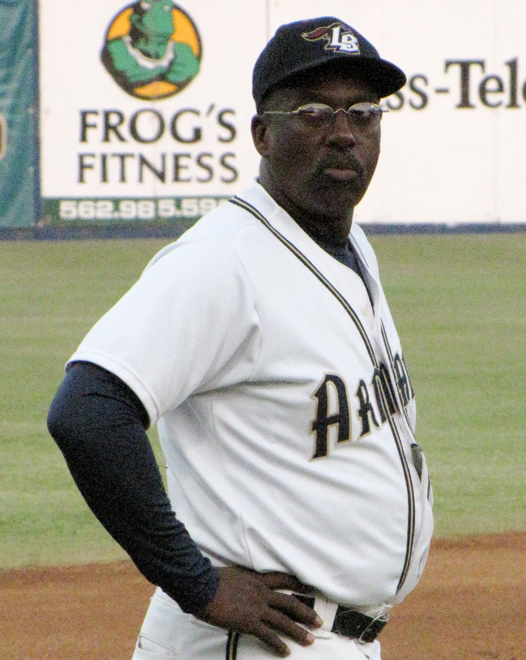 Garry Templeton, manager of the Long Beach Armada, during a 2009 game